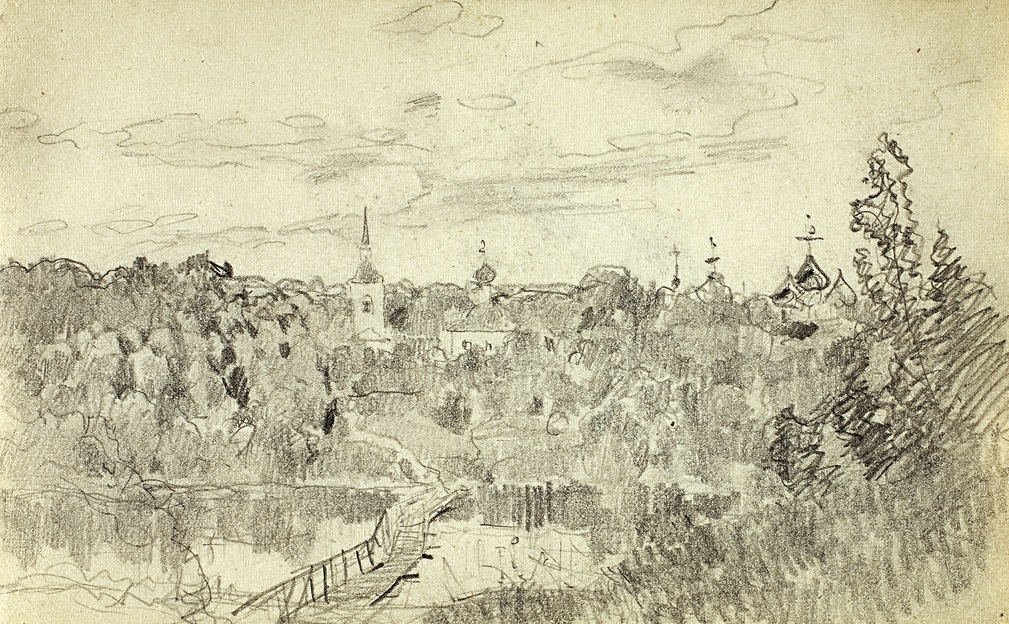 A Quiet Monastery (pencil study by Isaac Levitan, 1890)